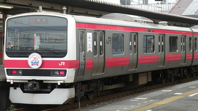 JR East 209-500 series Keiyo Line EMU